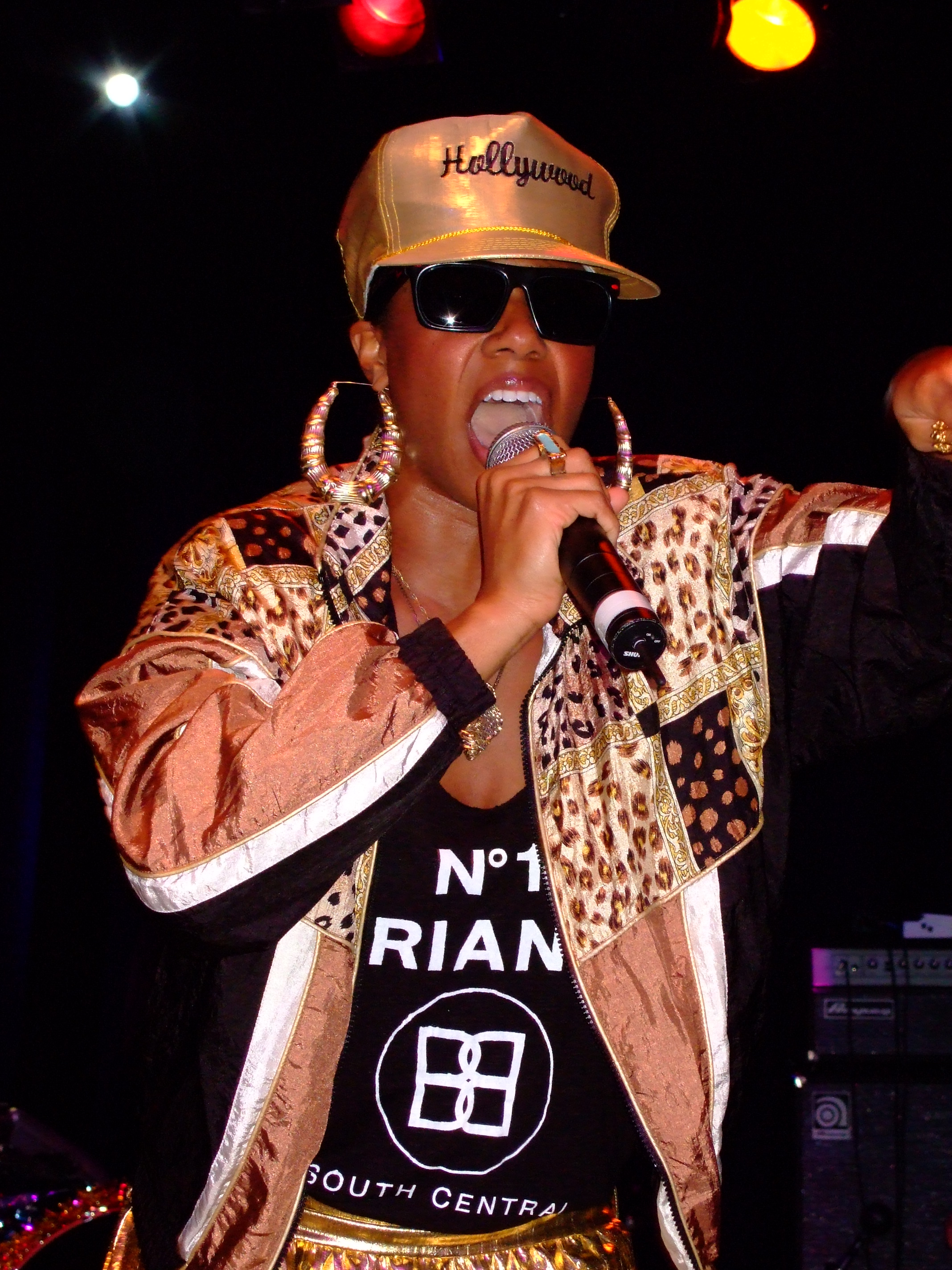 Holly har took this photo on Thursday 28 August 2008 at Koko, London